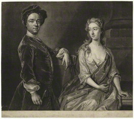 Iconographic Collections Keywords: portrait prints; stipple prints; Faber Jr.; Christian Friedrich Zincke